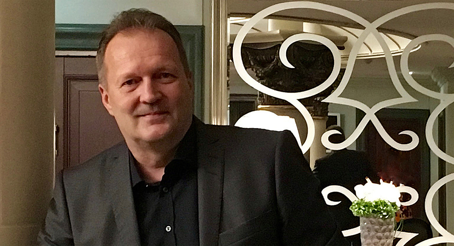 Finnish non-fiction writer Kari Kallonen